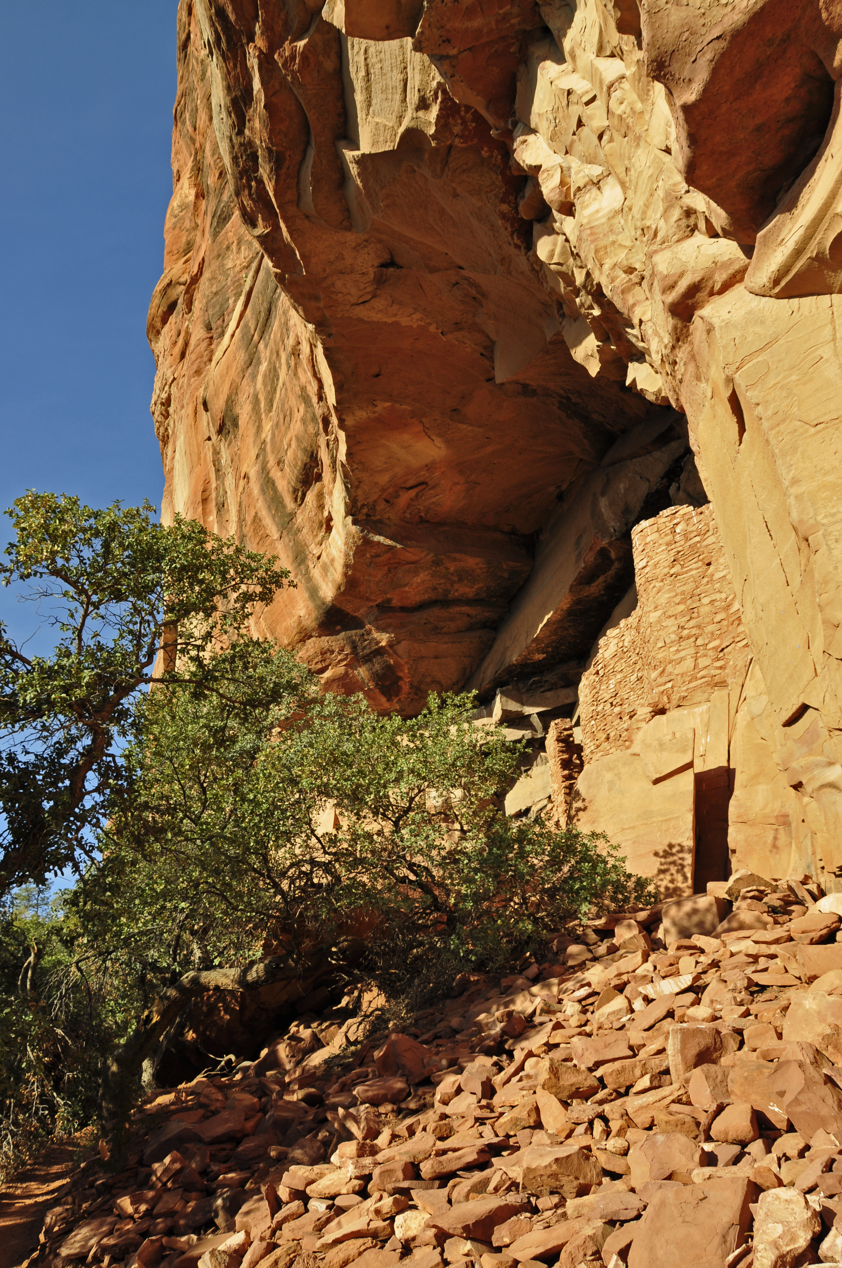 Honanki Ruins of— at the end of Coconino National Forest Road 525 — in Arizona. For directions on how to get there, visit Taken 11-11-09 by Brady Smith. Credit: USDA Forest Service, Coconino National Forest.